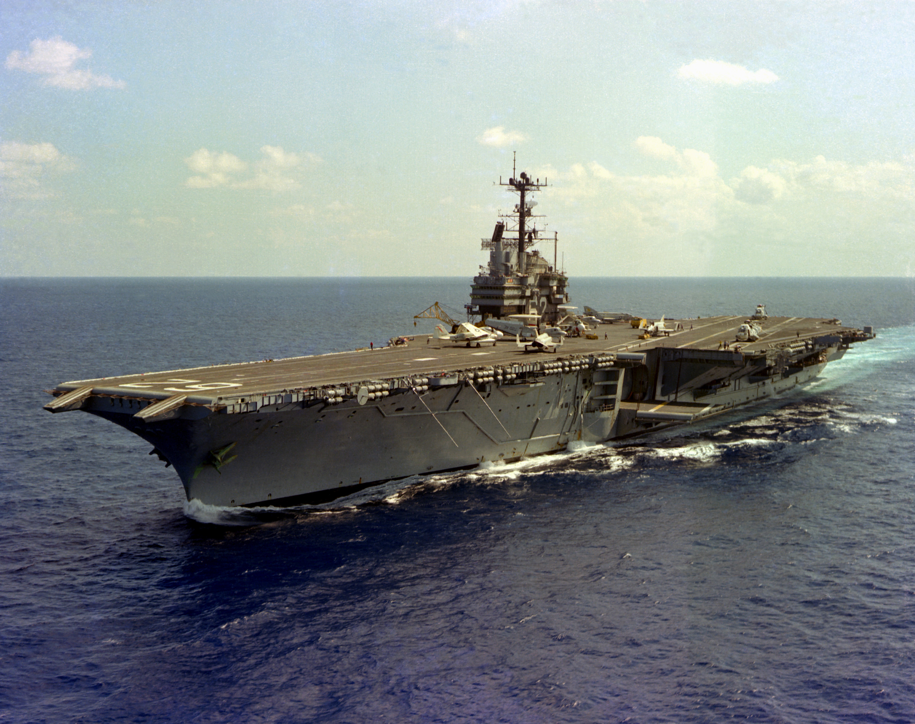 A port bow view of the aircraft carrier USS INDEPENDENCE (CV-62) underway.